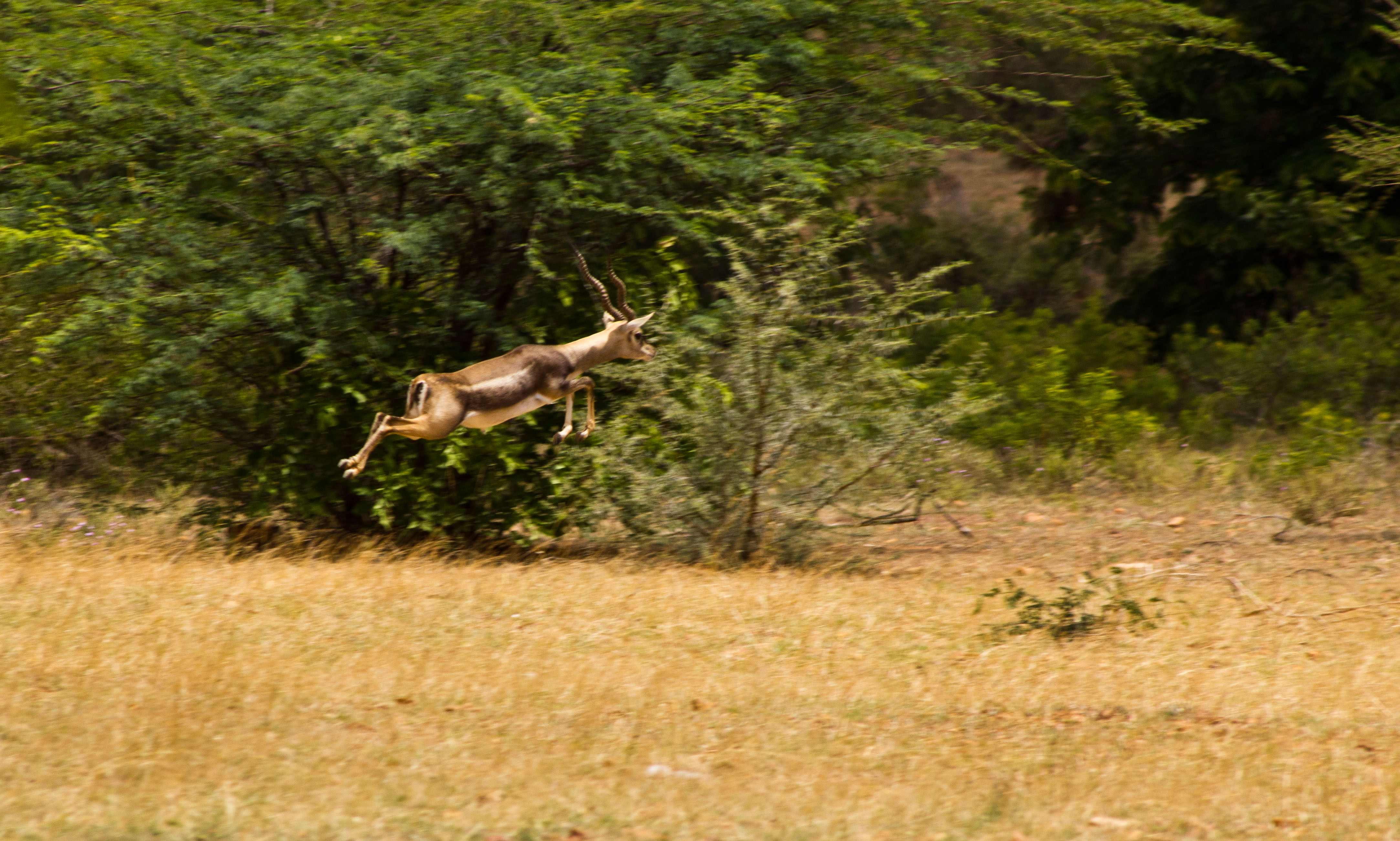 Blackbuck at Jayamangala reserve - running away as they spot Human intervention